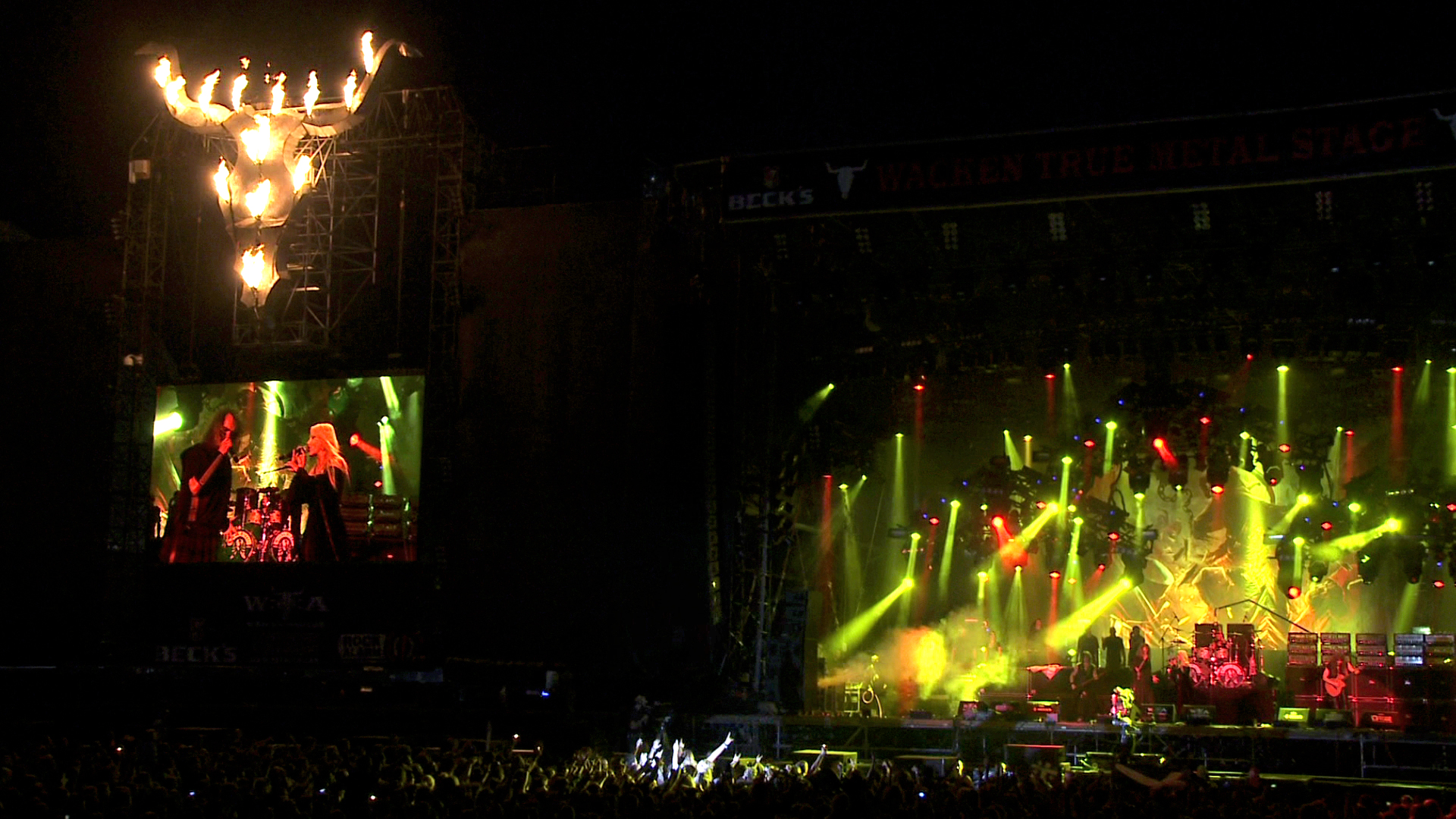 Road to Wacken